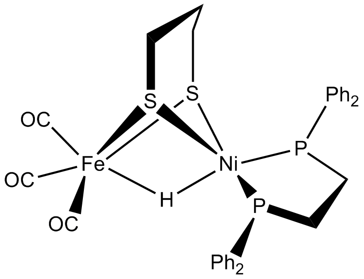 Chem draw structure of Fe-Ni model complex synthesized by Rauchfuss et al